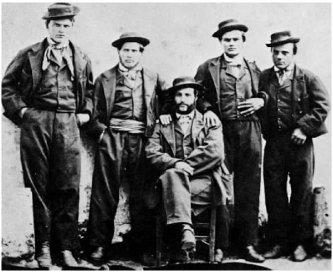 Brigand band of Manzo